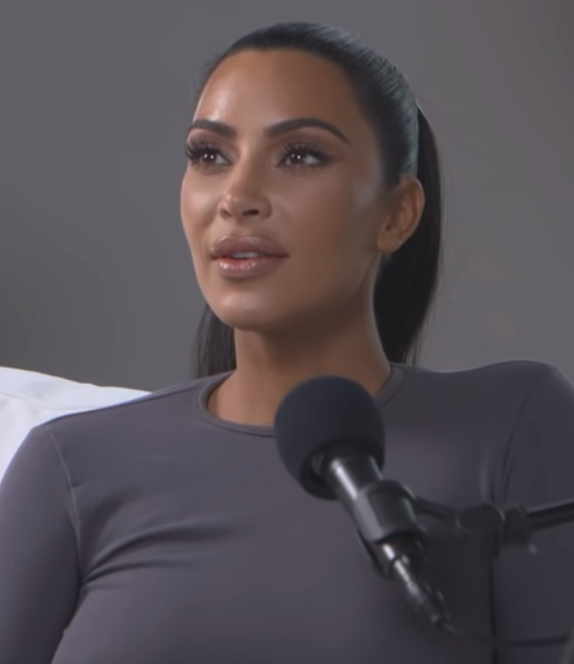 Kim Kardashian at the podcast Pretty Big Deal with Ashley Graham in 2018